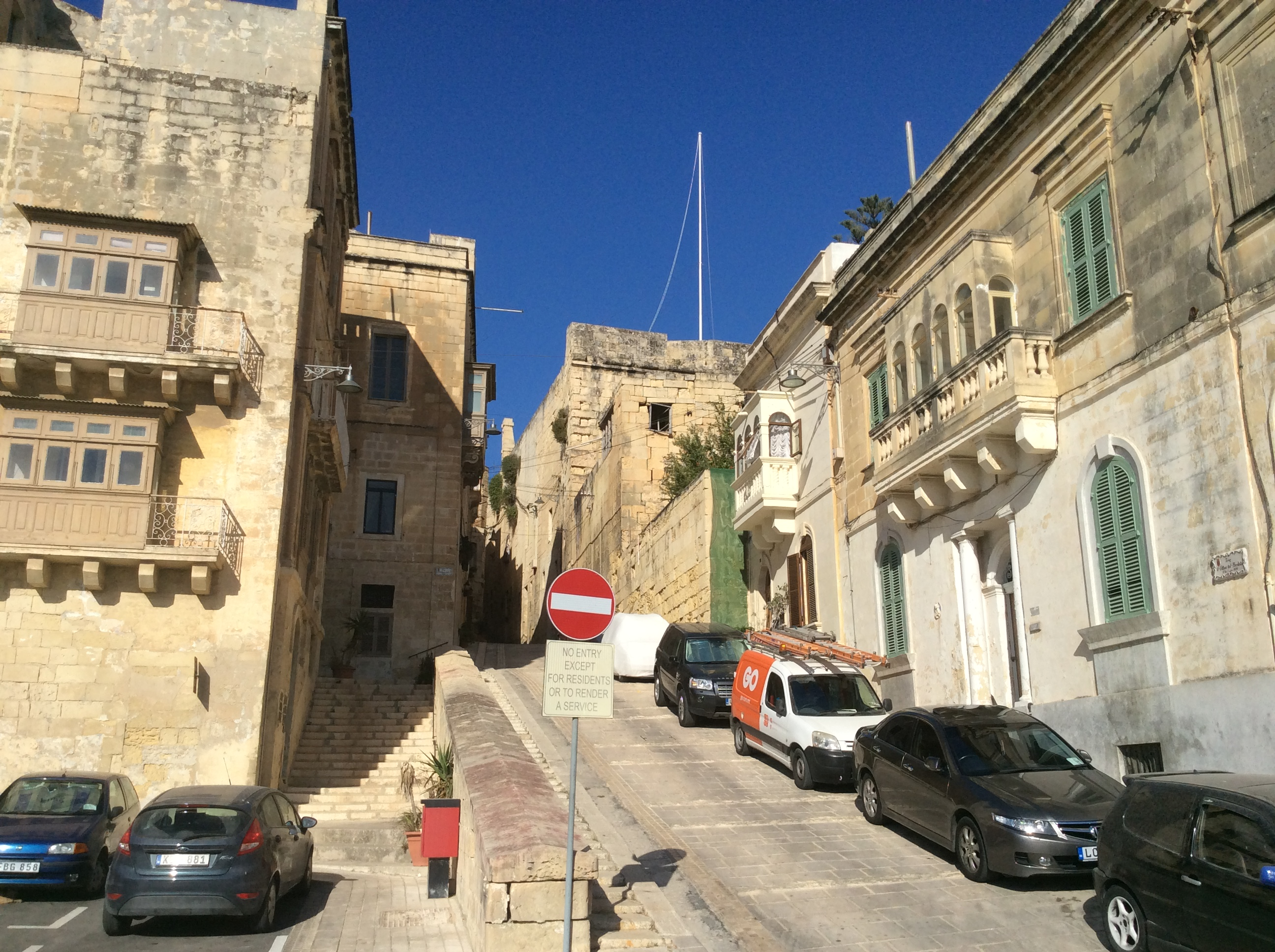 Birgu and Cottonera fortifications